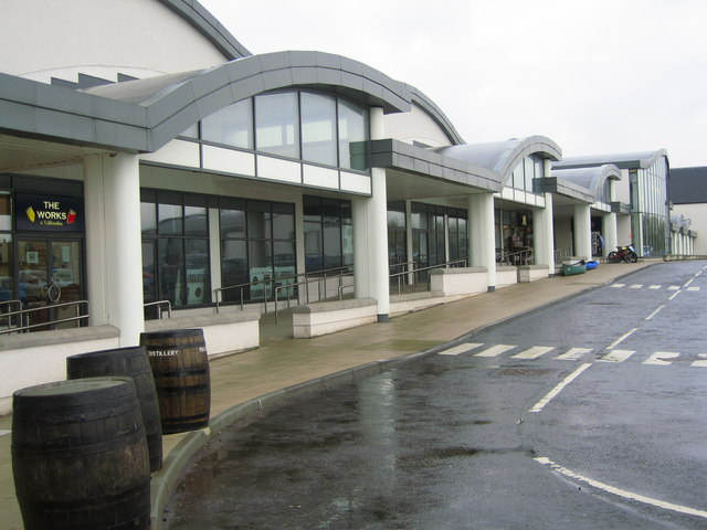 Blackford Shops